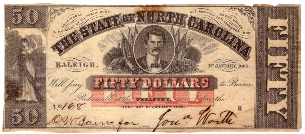 An original North Carolina Confederate banknote from 1863.